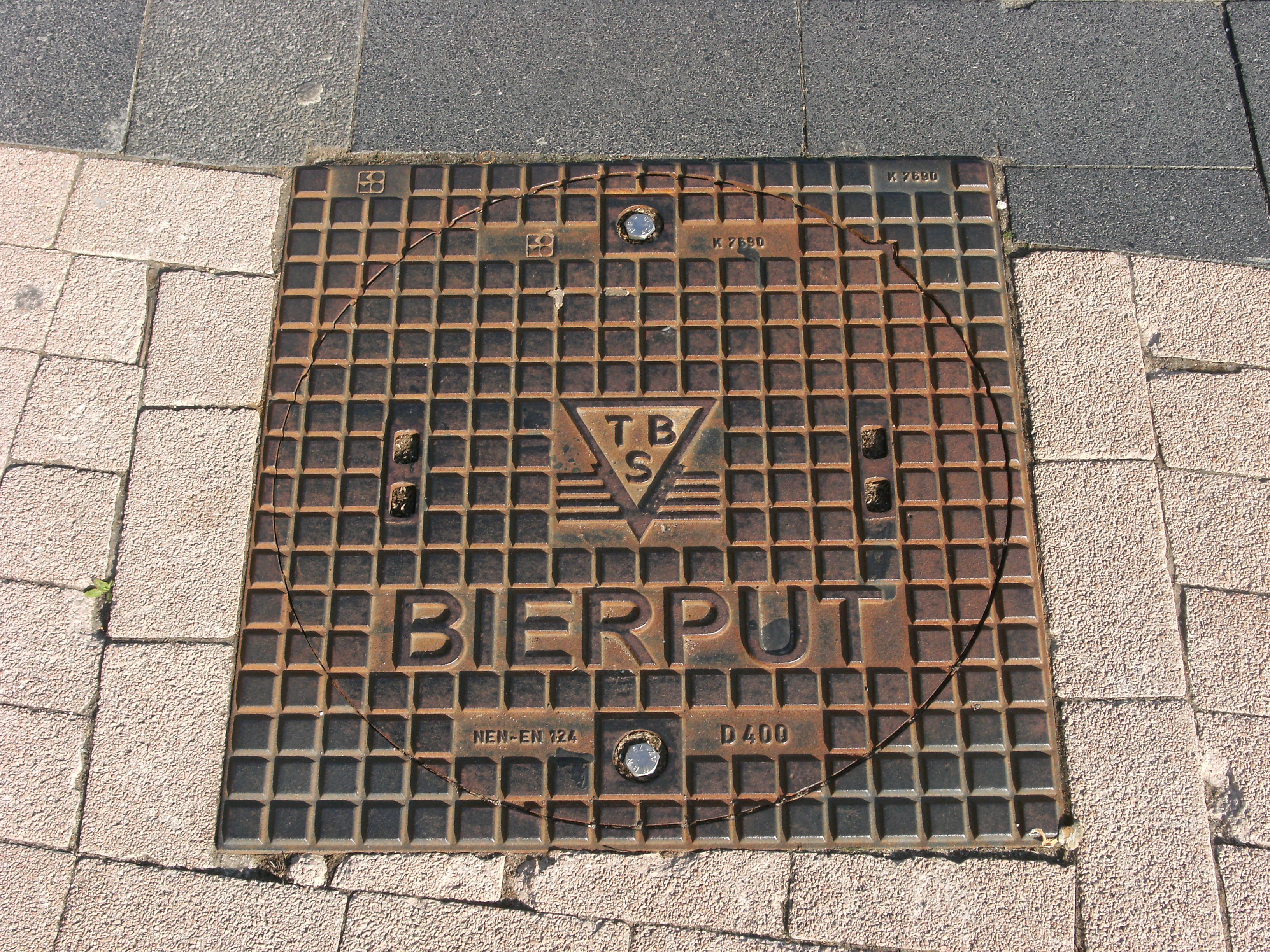 Manhole cover in Dronten.